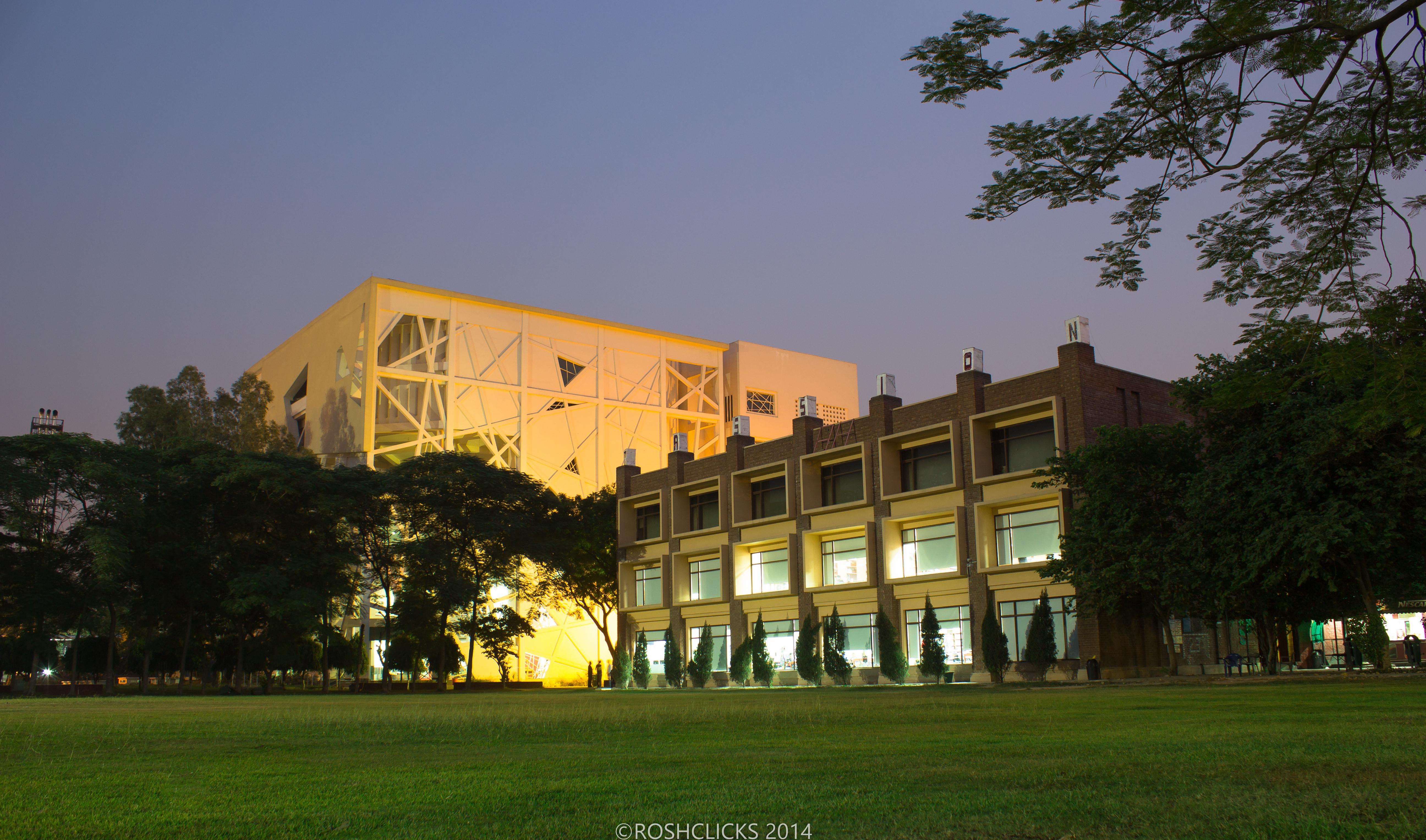 This photograph of IMT Ghaziabad Campus was clicked by Roshan Jain (Class of 2015), more of his works can be seen by visiting